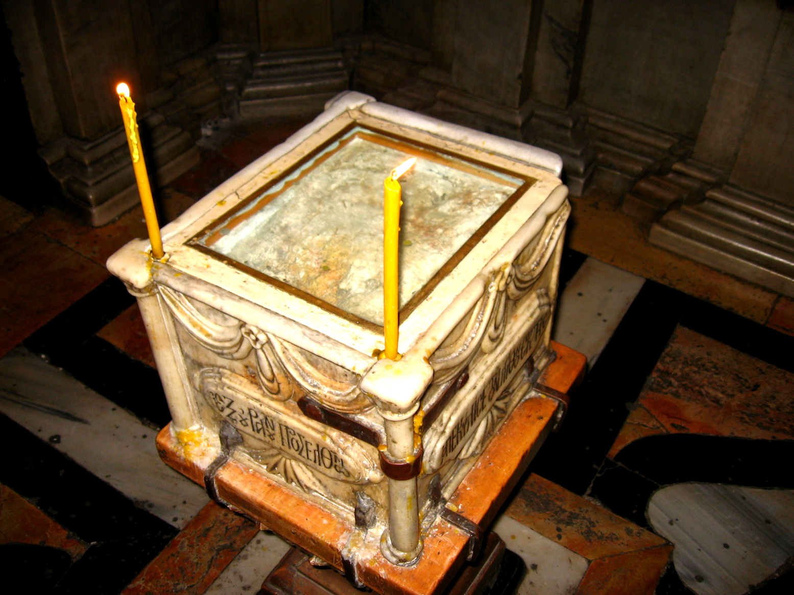 The Angel's Stone, a fragment of the stone believed to have sealed the tomb after Jesus' burial, in the first of the two chambers of the Edicule, the second one being the tomb itself. Church of the Holy Sepulchre, Jerusalem.